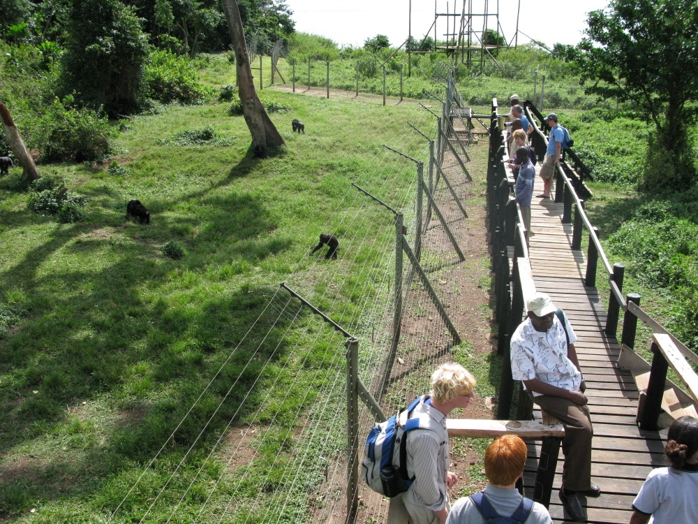 Ngamba Island Chimpanzee Sanctuary, lake Victoria, Uganda. Visitors platform area along the edge of the sanctuary fence.